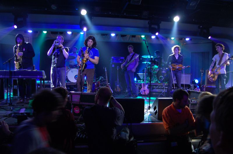 Do Make Say Think performing live.